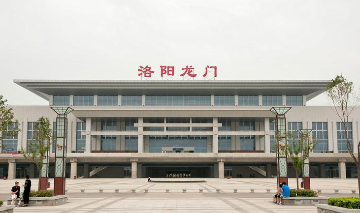 Longmen railway station